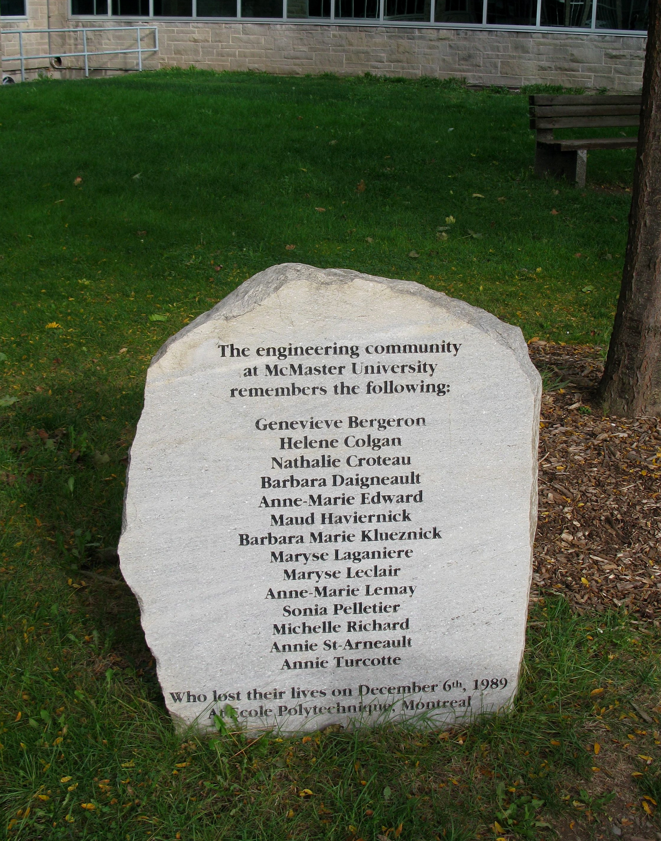 Montreal massacre memorial at McMaster University